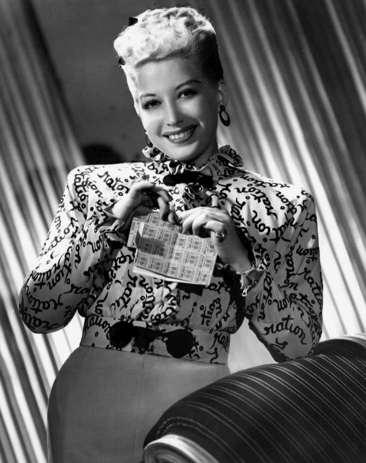 Photo of singer Helen Forrest, who did a radio program with singer Dick Haymes. She is seen wearing a unique World War II fashion-a blouse with the word "ration" repeated on it and is holding a ration book.